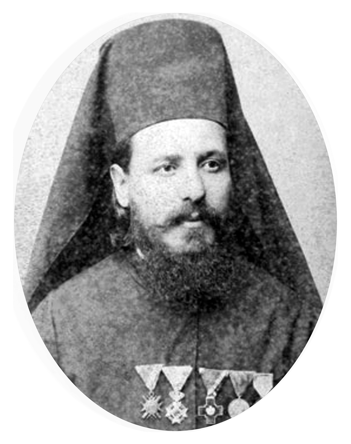 Dimitrije Drazic - Firmilijan (1852-1903)